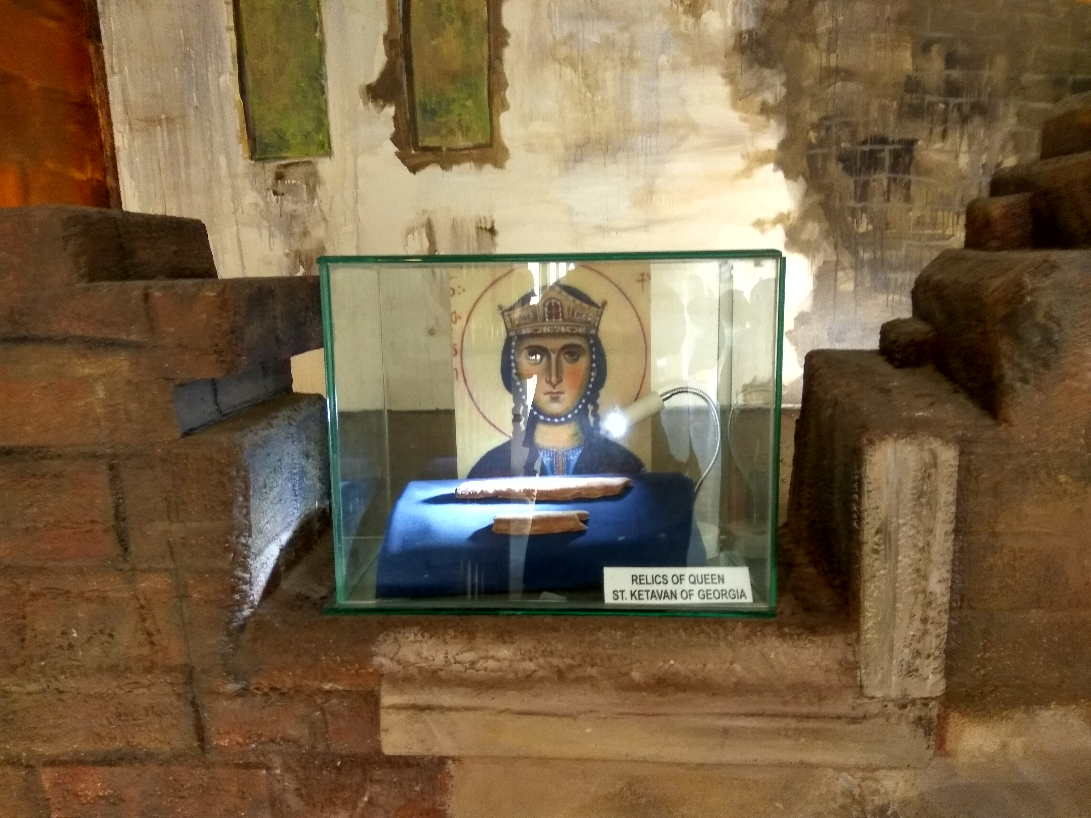 Relic of Queen Saint Ketevan of Georgia in Goa